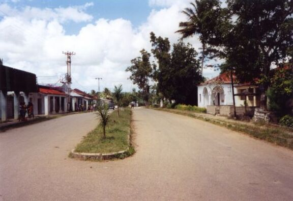 Photo by J. Patrick Fischer Main road of Lospalos/Timor-Leste on 24th June 2002.